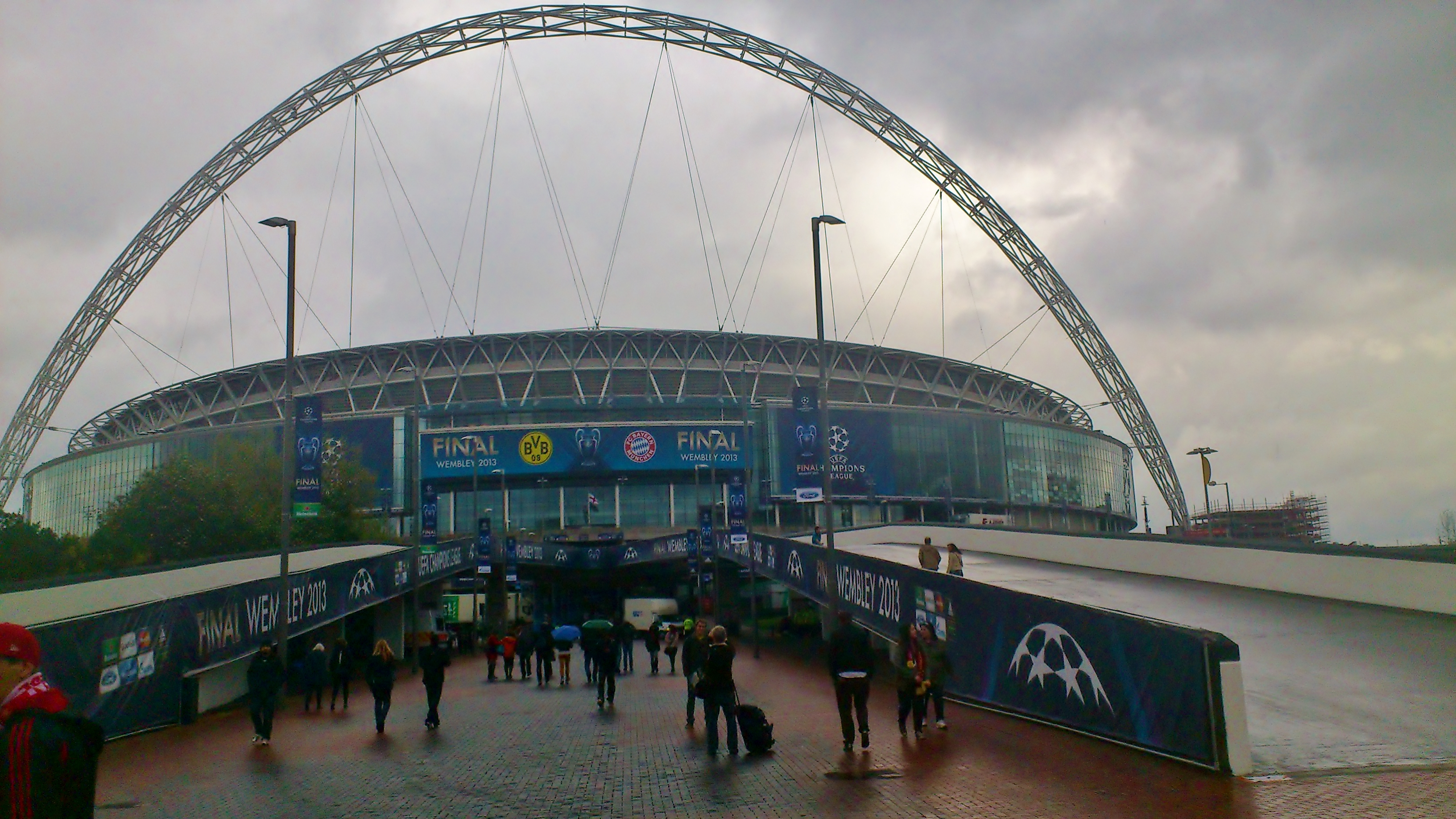 Das Stadion vor dem Finaltag